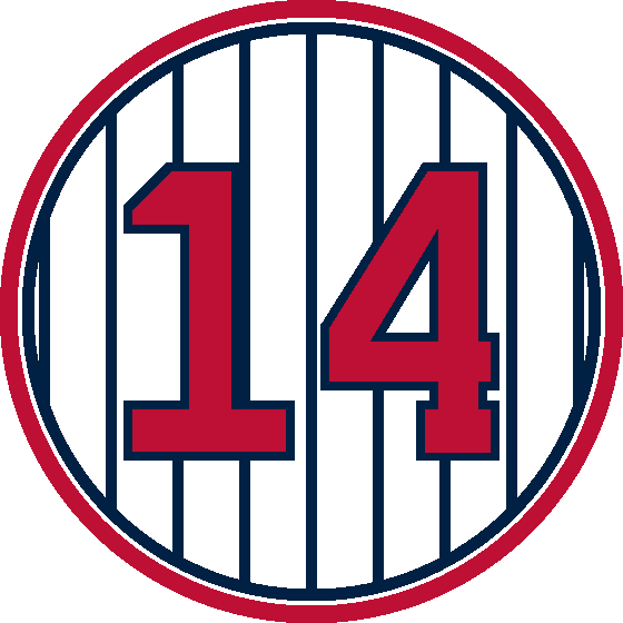 The number "14", retired for Kent Hrbek by the Minnesota Twins.